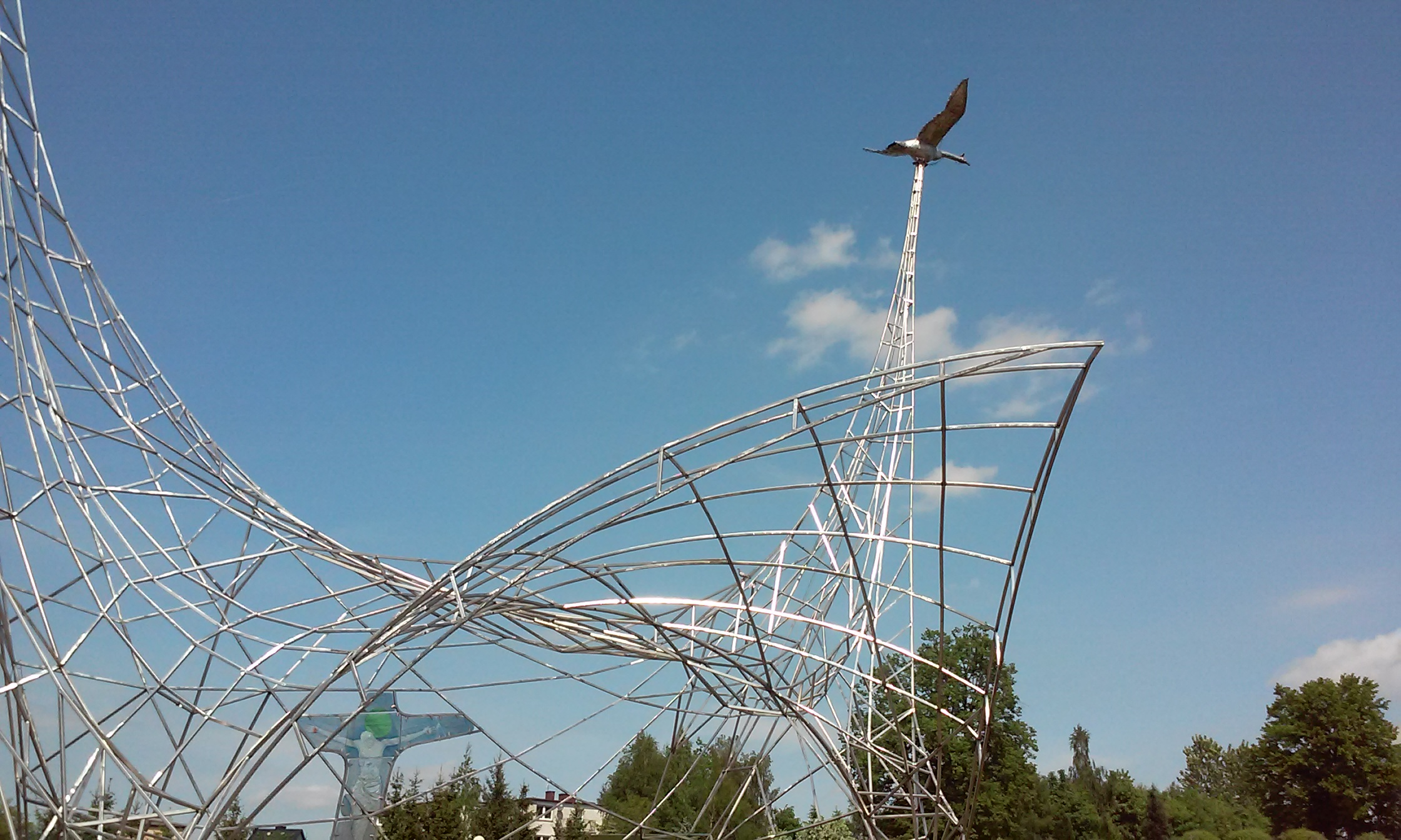 Sierakowice (Pomerania), the papal altar from Pelplin, 1999, detail